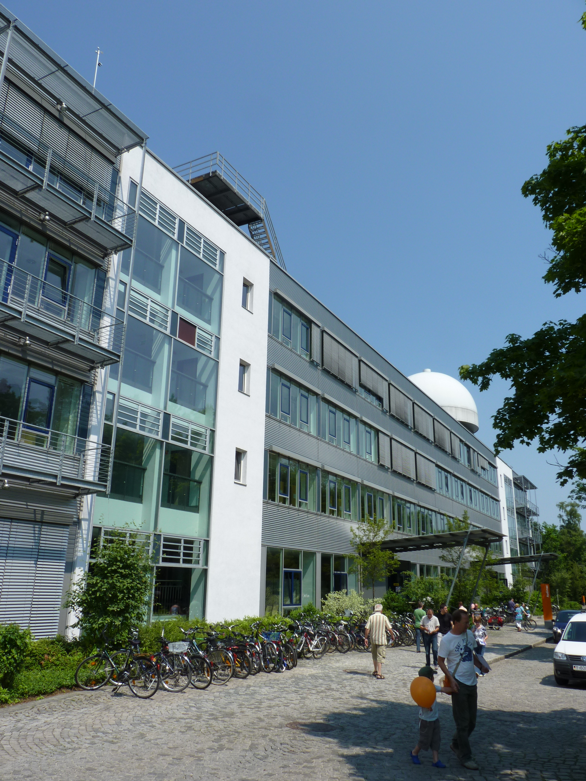 Bundeswehr University of Munich, main lecture hall